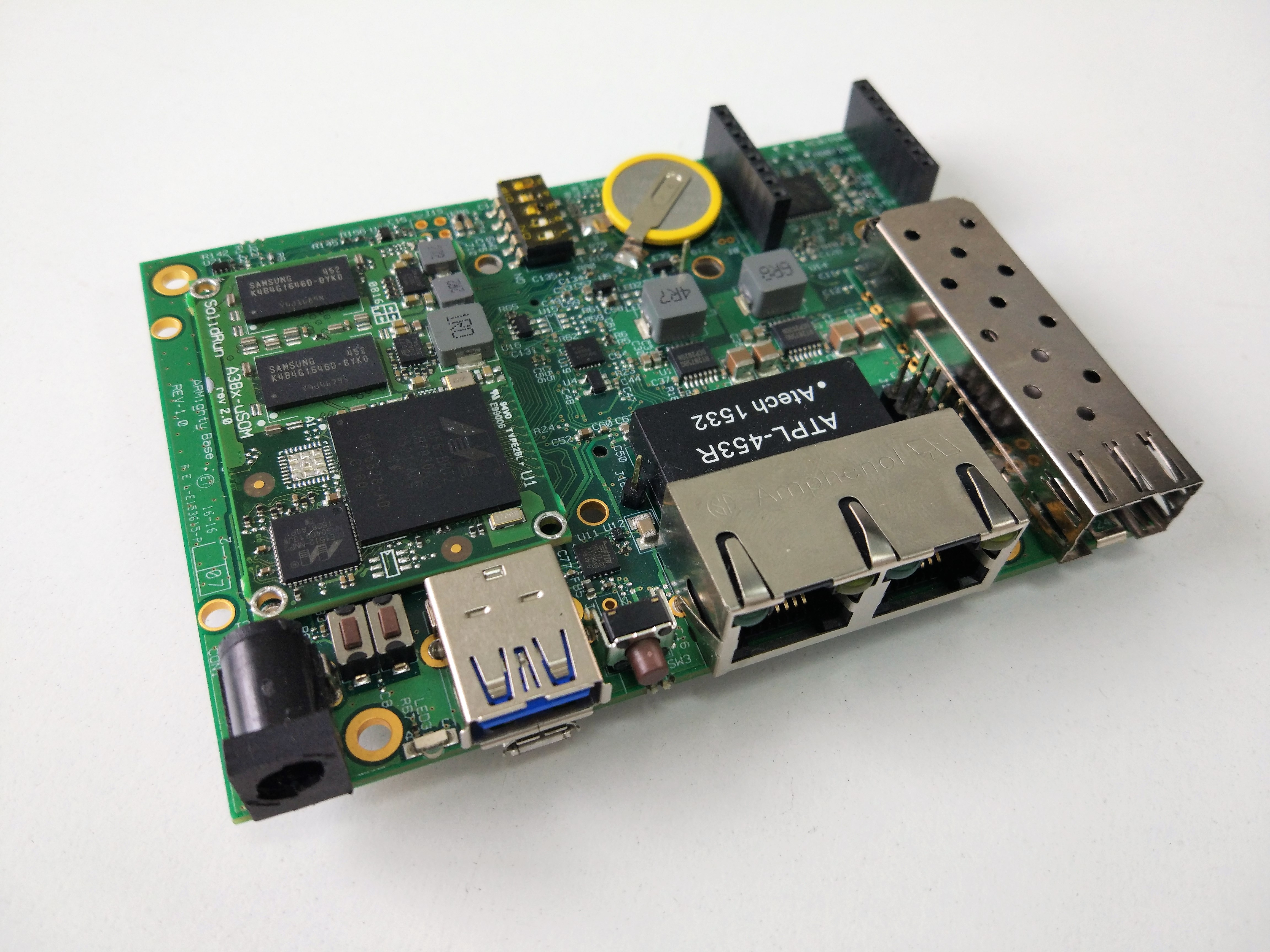 ClearFog Base board by SolidRun.